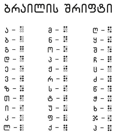 The Georgian alphabet in braille